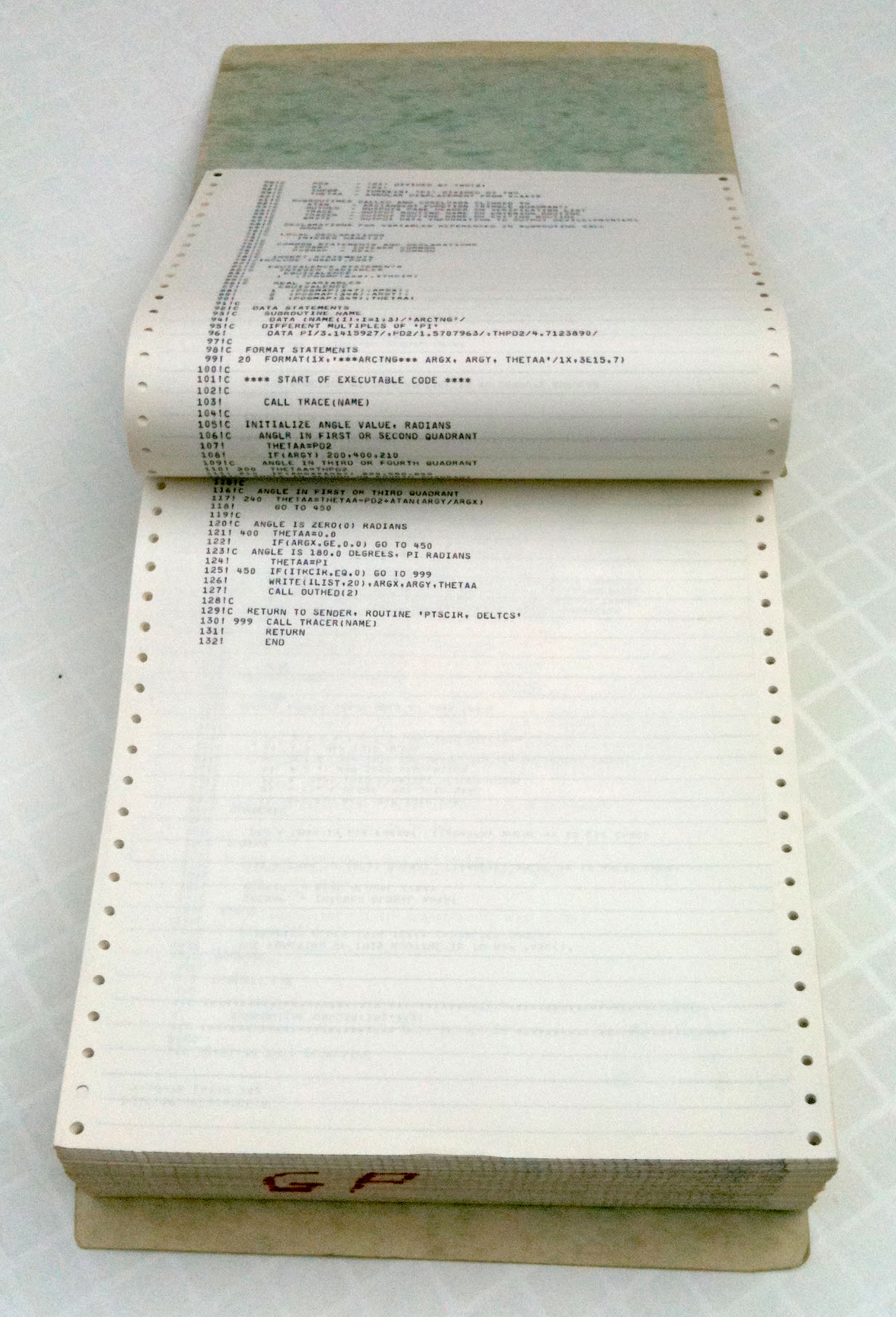 A line printer listing of a large computer program from 1978, bound in a printout binder. No significant portion of the original program is legible.